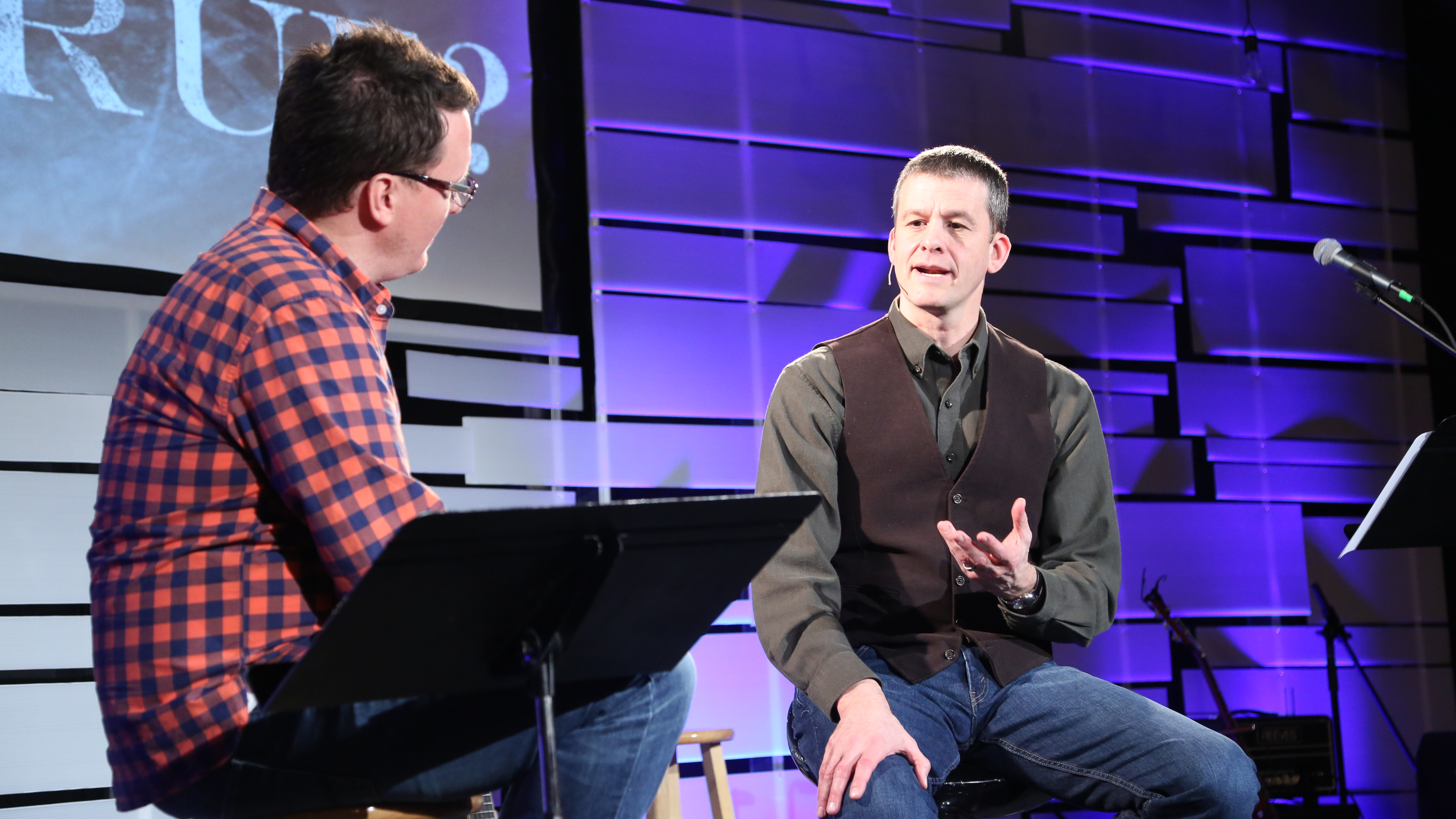 Speaking at a modern church.